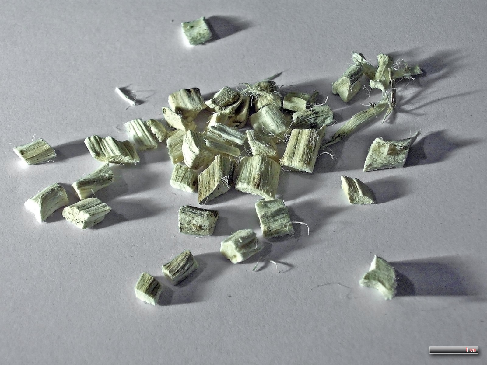 dried Althaea officinalis; Root